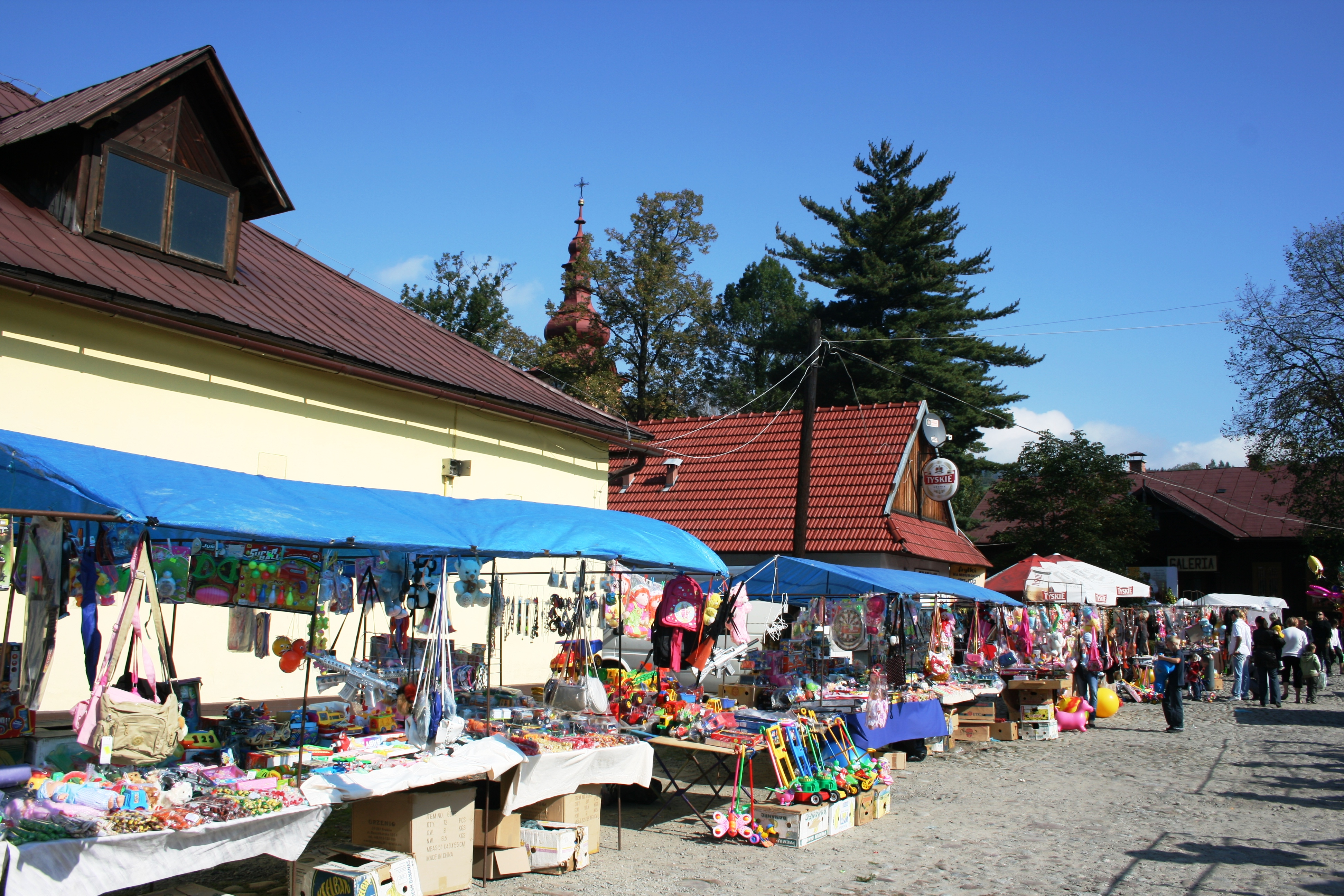 Fair in Krościenko nad Dunajcem (Poland)